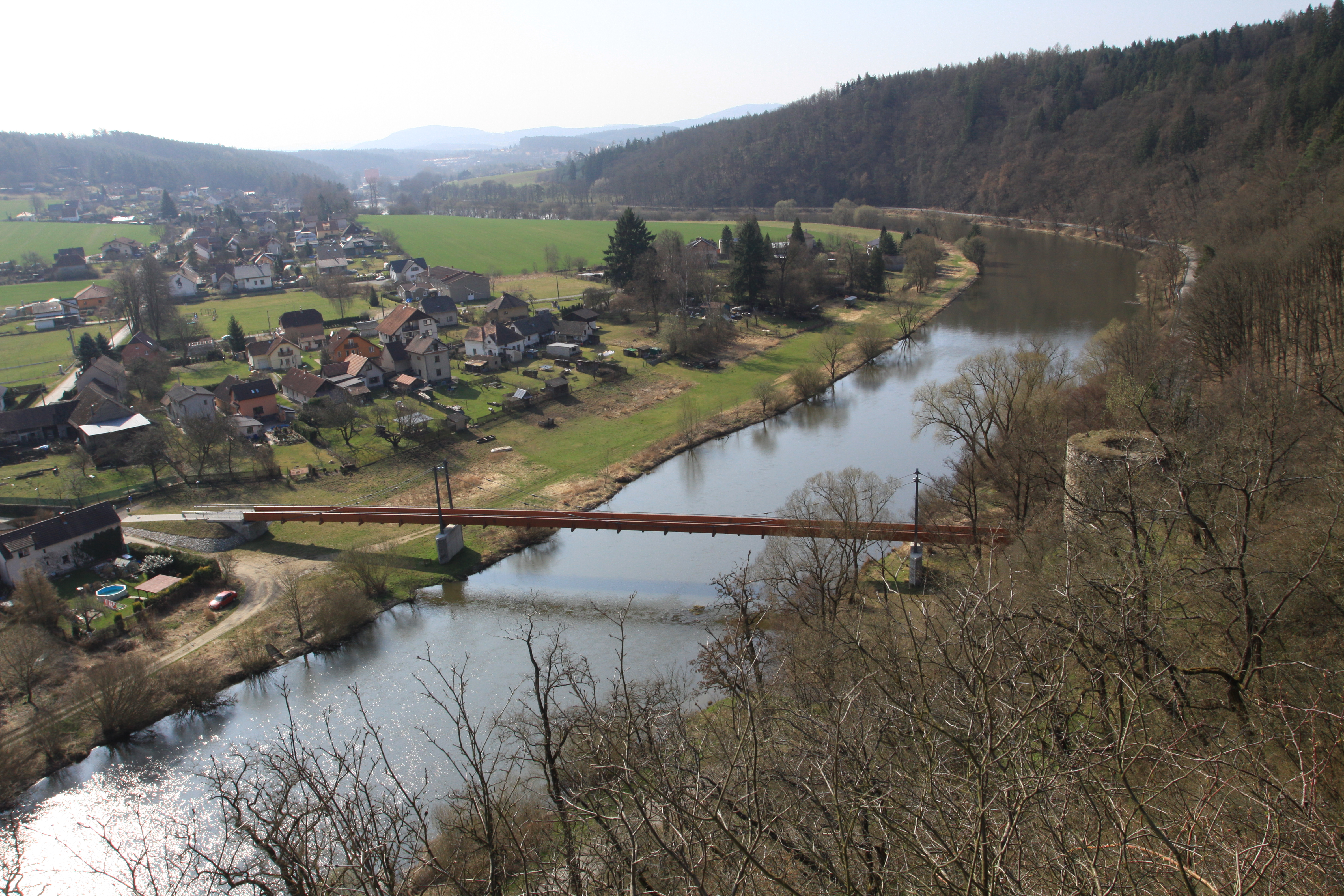 View from natuer reserve Čížov to Zbořený Kostelec village in Benešov District, Czechia